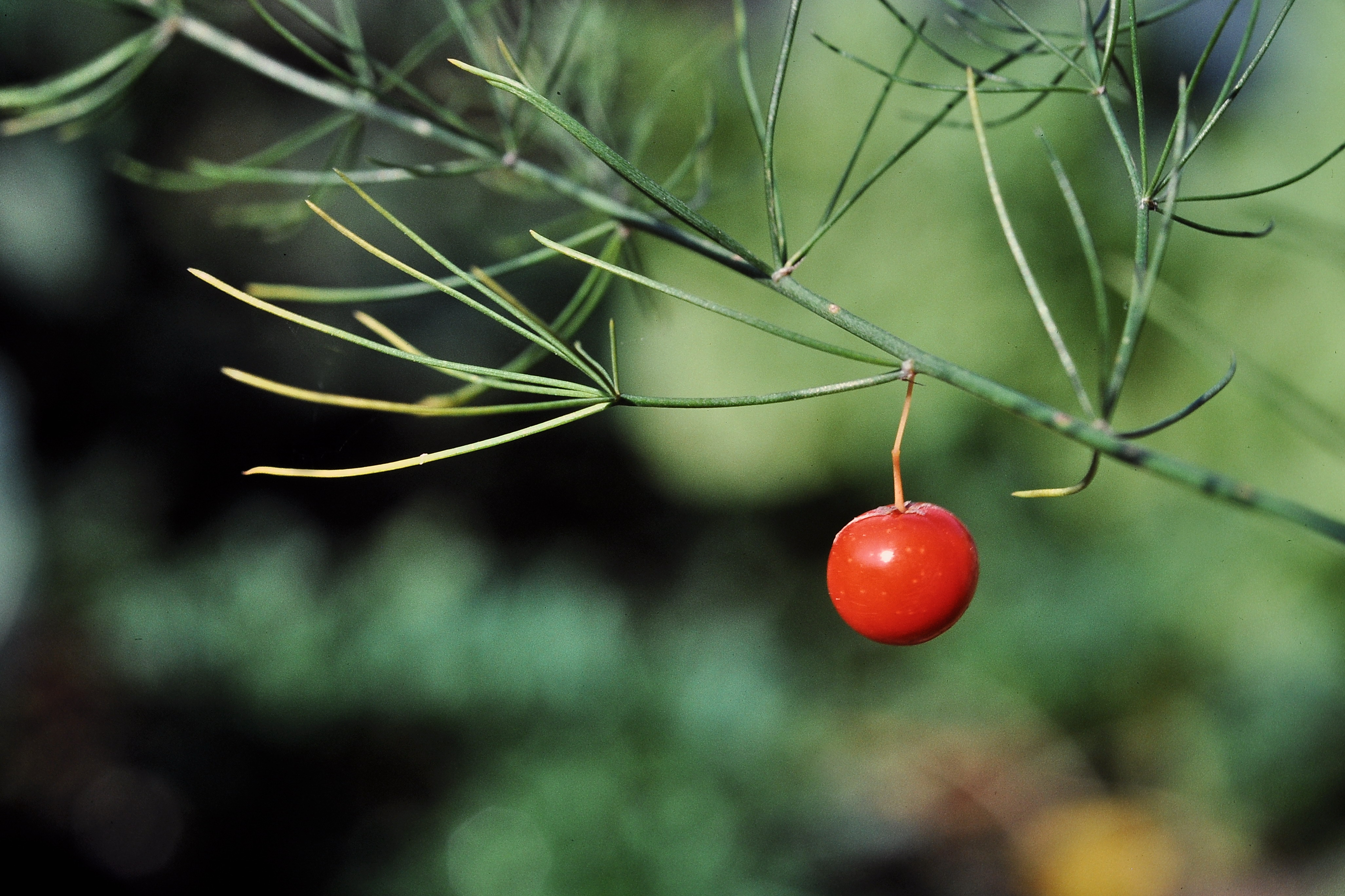 Seed of asparagus officinalis